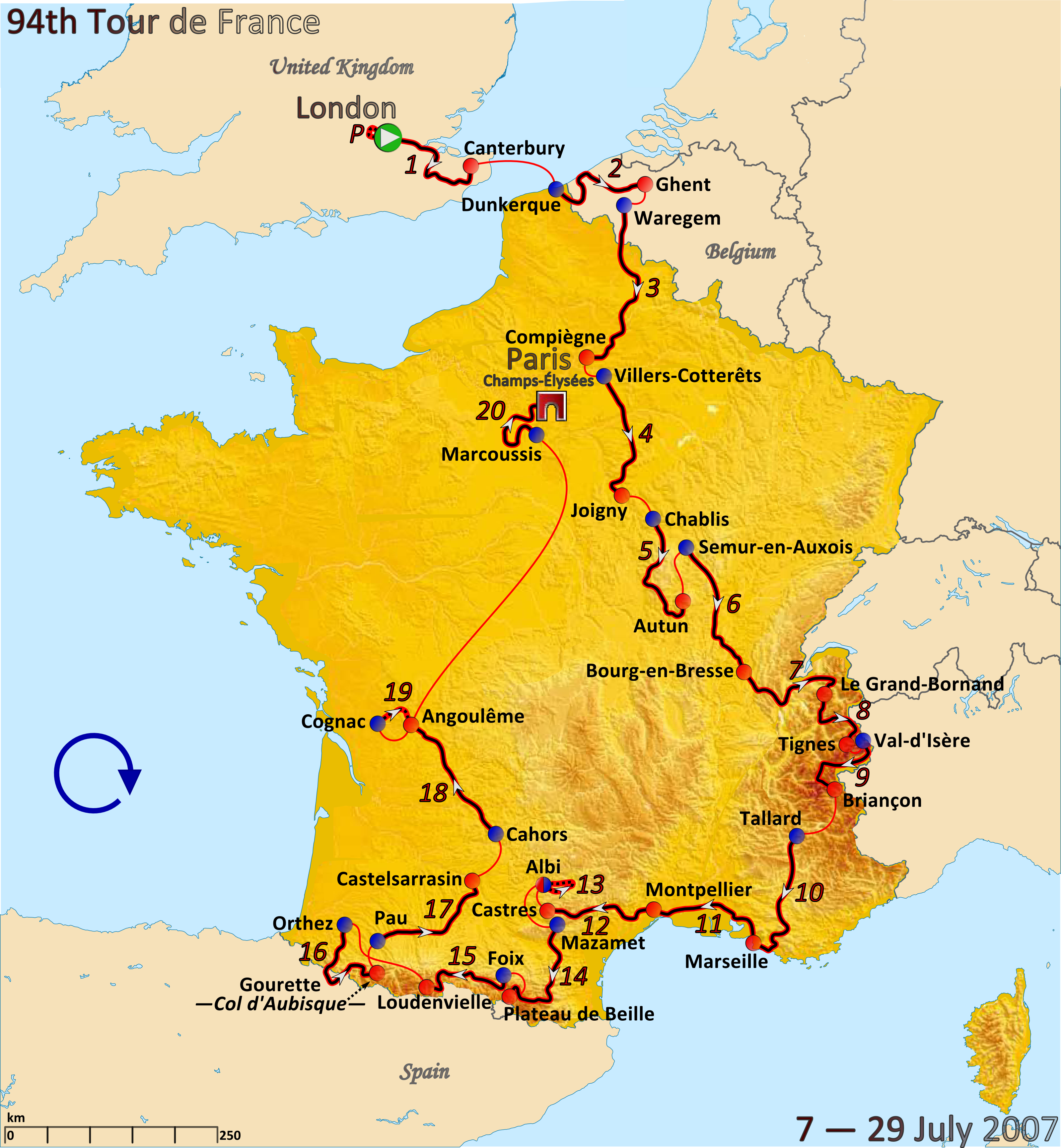 Map of the 2007 Tour de France created in Inkscape